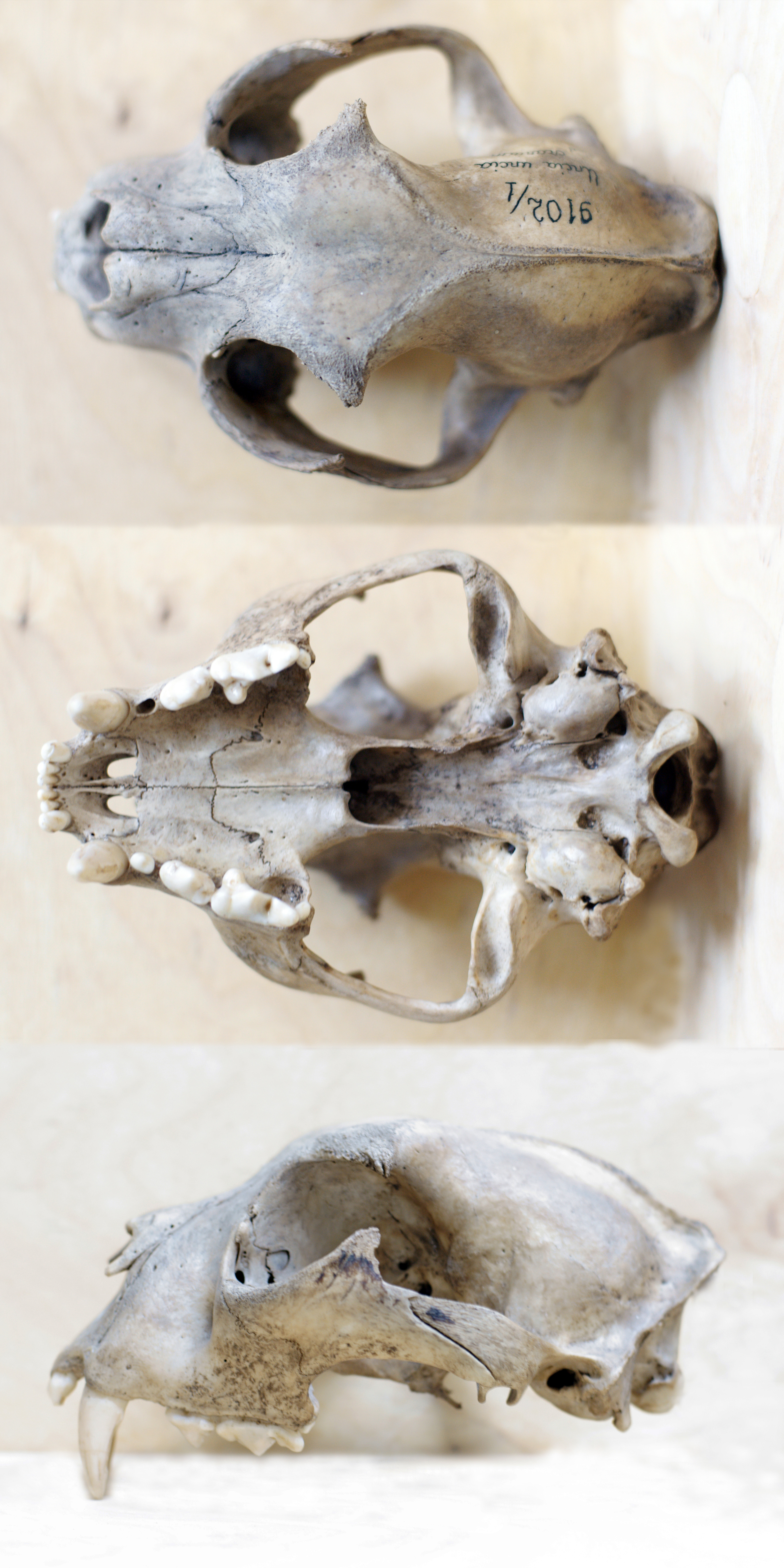 snow leopard skull